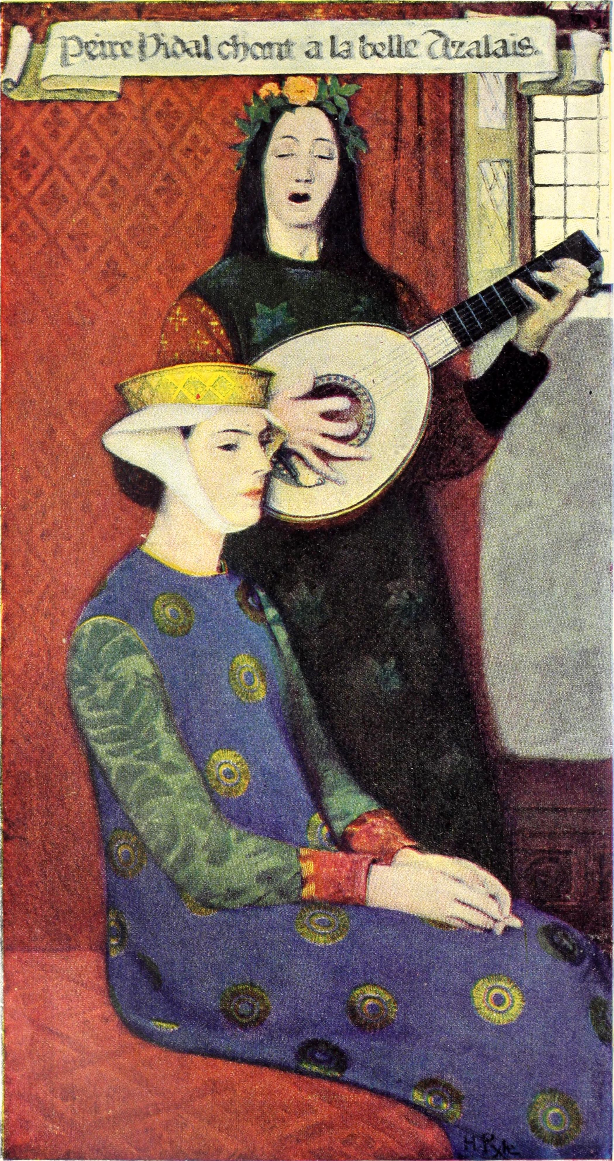 Peire Vidal chant a la belle Azalais